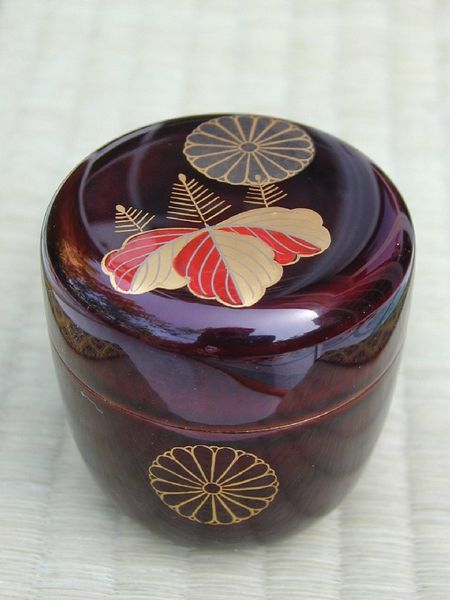 Natsume with chrysanthemum motif. Image found on Italian Wikipedia (original link). Natsume È un piccolo recipiente con coperchio di lacca. Si usa come contenitore per il tè in polvere (matcha) e viene usato nella cerimonia del tè (Cha no yu). Può essere di vari colori, nero, rosso o dorato. Può essere decorato con motivi stilizzati o floreali. Il matcha viene fatto scendere all'interno del natsume utilizzando un piccolo imbuto di legno in modo tale che la polvere si disponga all'interno a forma di cono. La foto è stata scattata da me il 25 luglio 2004. l'oggetto è di mia proprietà. Adriano Category:Japanese tea ceremony Immagine:Natsume.jpg